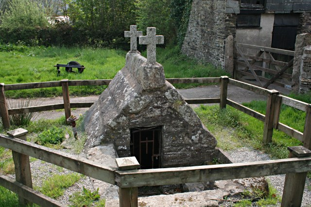 Old Well on Rezare Green Despite appearances I don't think this is an ancient holy well. The crosses were erected, probably sometime in the late 19th century by the artist Arthur Bevan Collier.